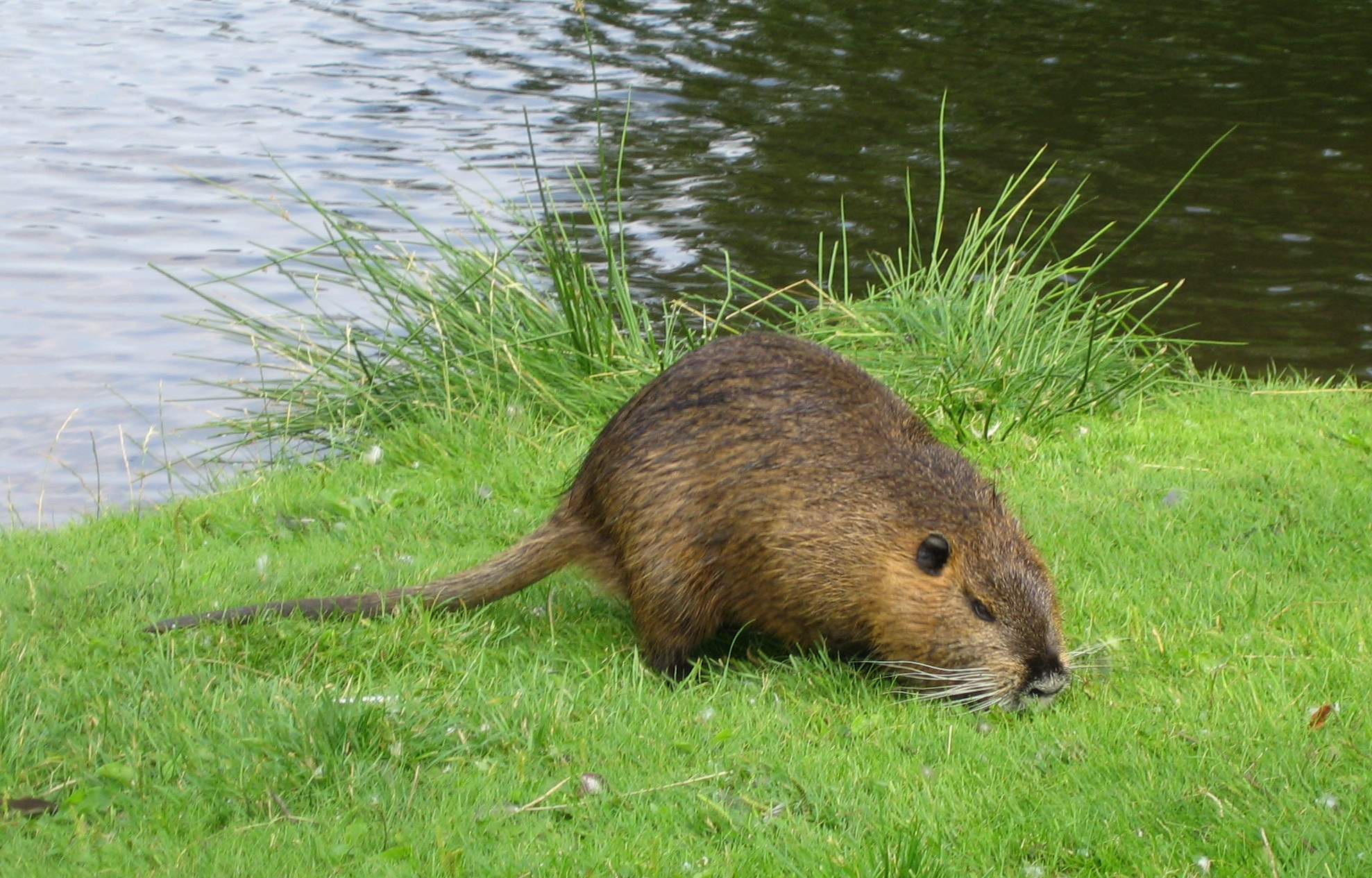 PLEAST NOTE: THIS ANIMAL WAS MISIDENTIFIED AS A MUSKRAT BY THE PHOTOGRAPHER. NOTING THE ROUND TAIL, COLORATION, AND LAND FEEDING, IT IS A NUTRIA.